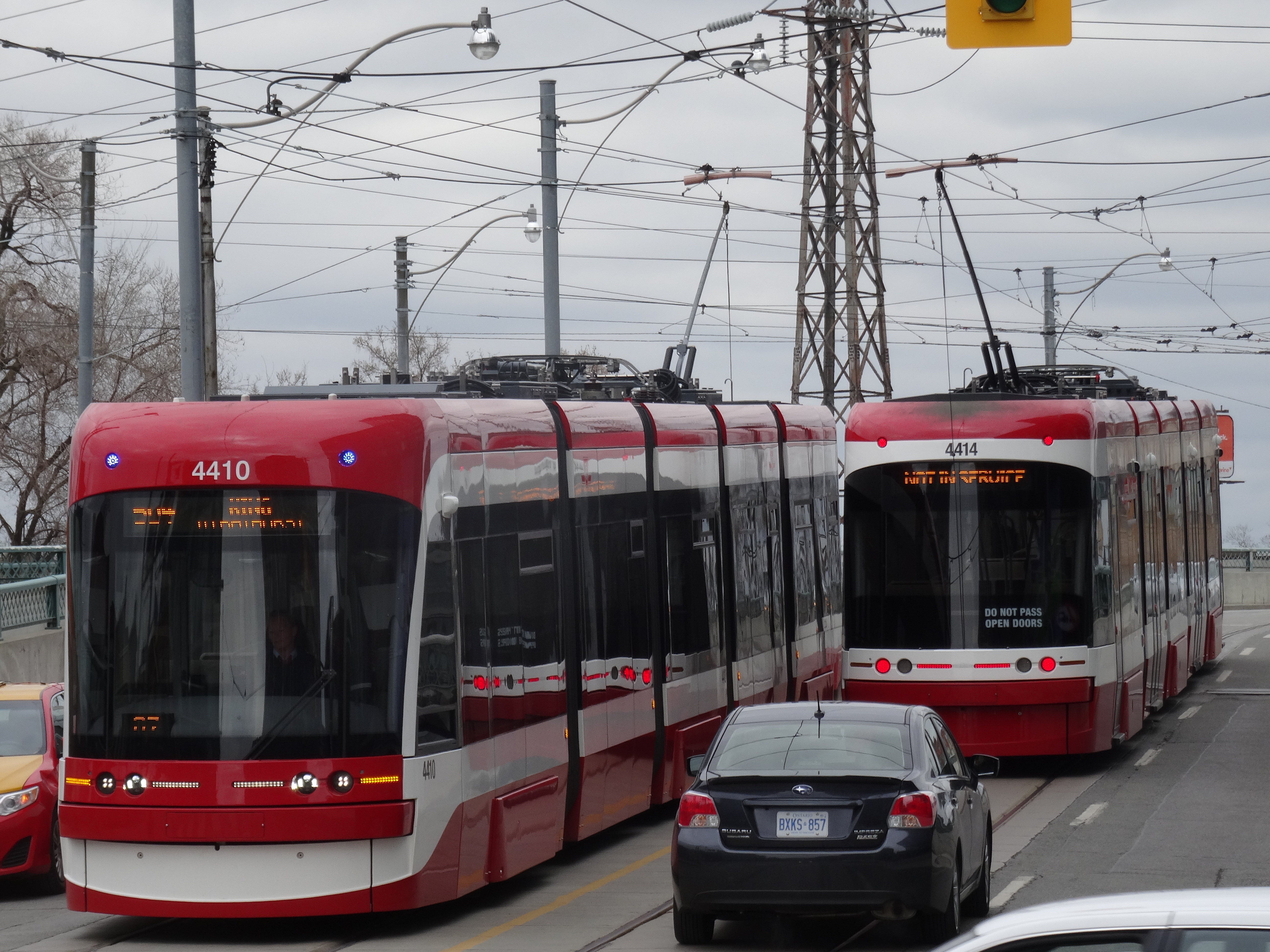 Beautiful new Bombardier vehicles, from the SW corner of River and King, 2016 05 02 (7)